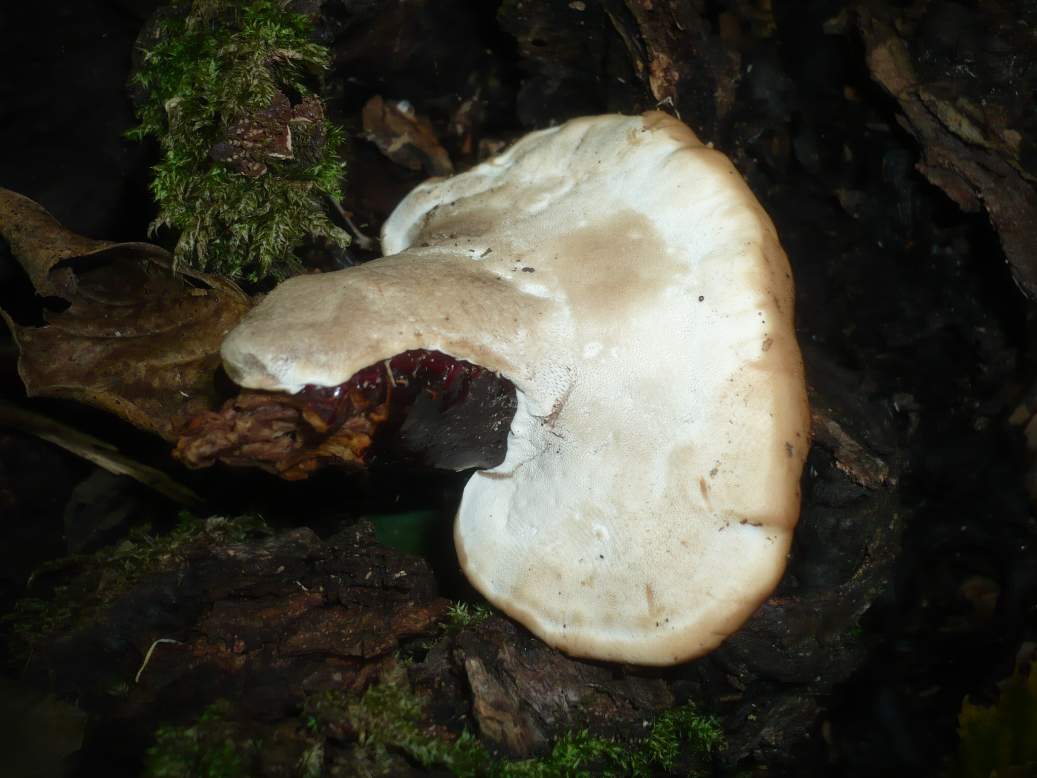 Ganoderma carnosum Pat. Image location: Schwabeck, St.Gotthard im Texingtal, Bezirk Melk, Lower Austria, Austria For more information about this, see the observation page at Mushroom Observer.